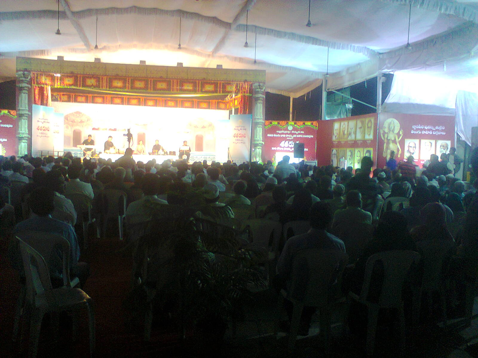 శతరూప-2013లో పాల్గొన్న ప్రేక్షకులు